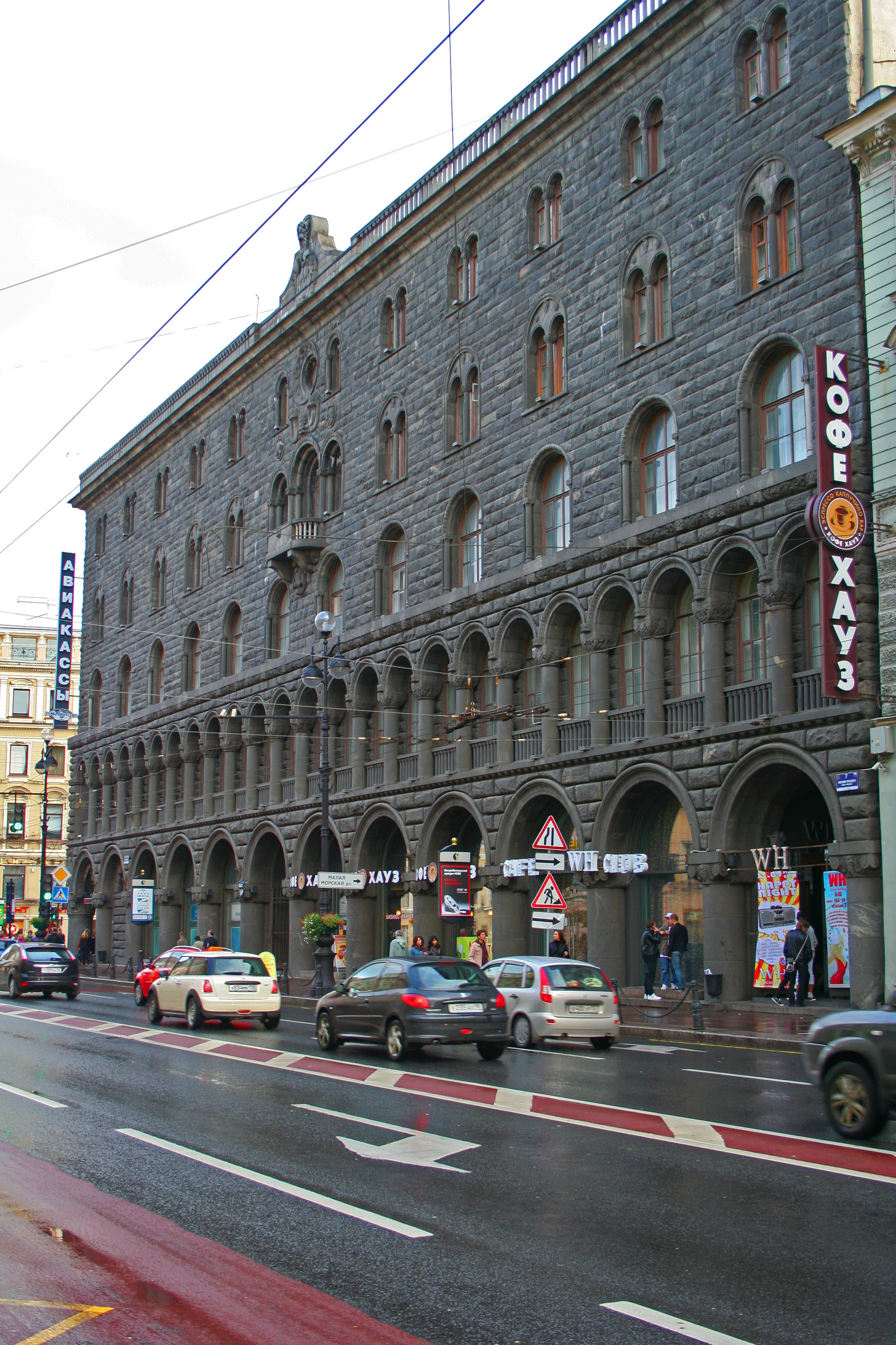 The Nevsky Prospekt in Saint Petersburg. House number 7-9.